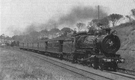 Caves Express passing through Parramatta Park, hauled by 3506